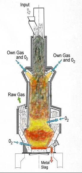 author Mr Frank Wuchert of the KBI group Gmbh, full permission given to use the information freely and as seen fit.